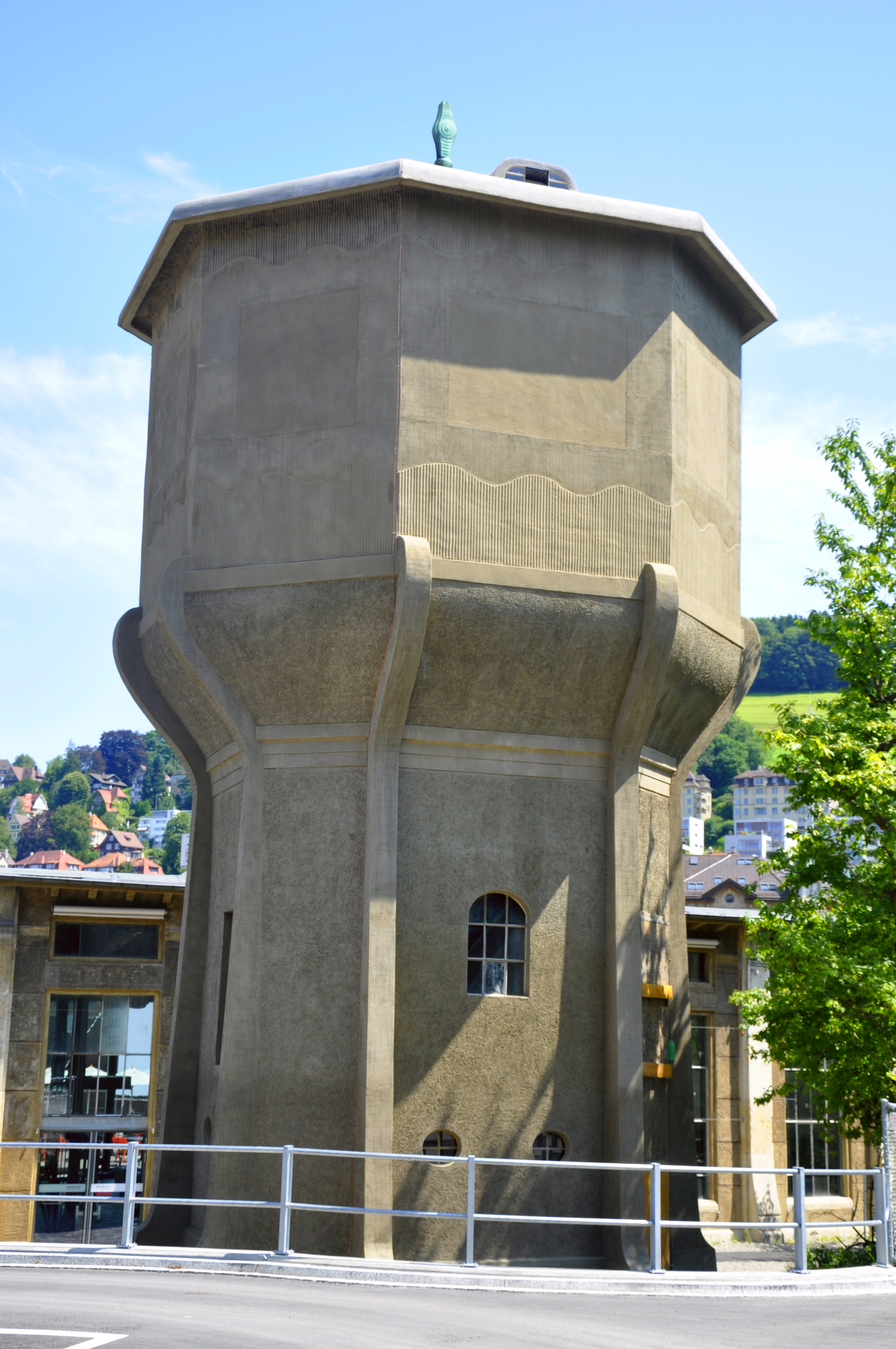 Water tower at St. GallenUnknown